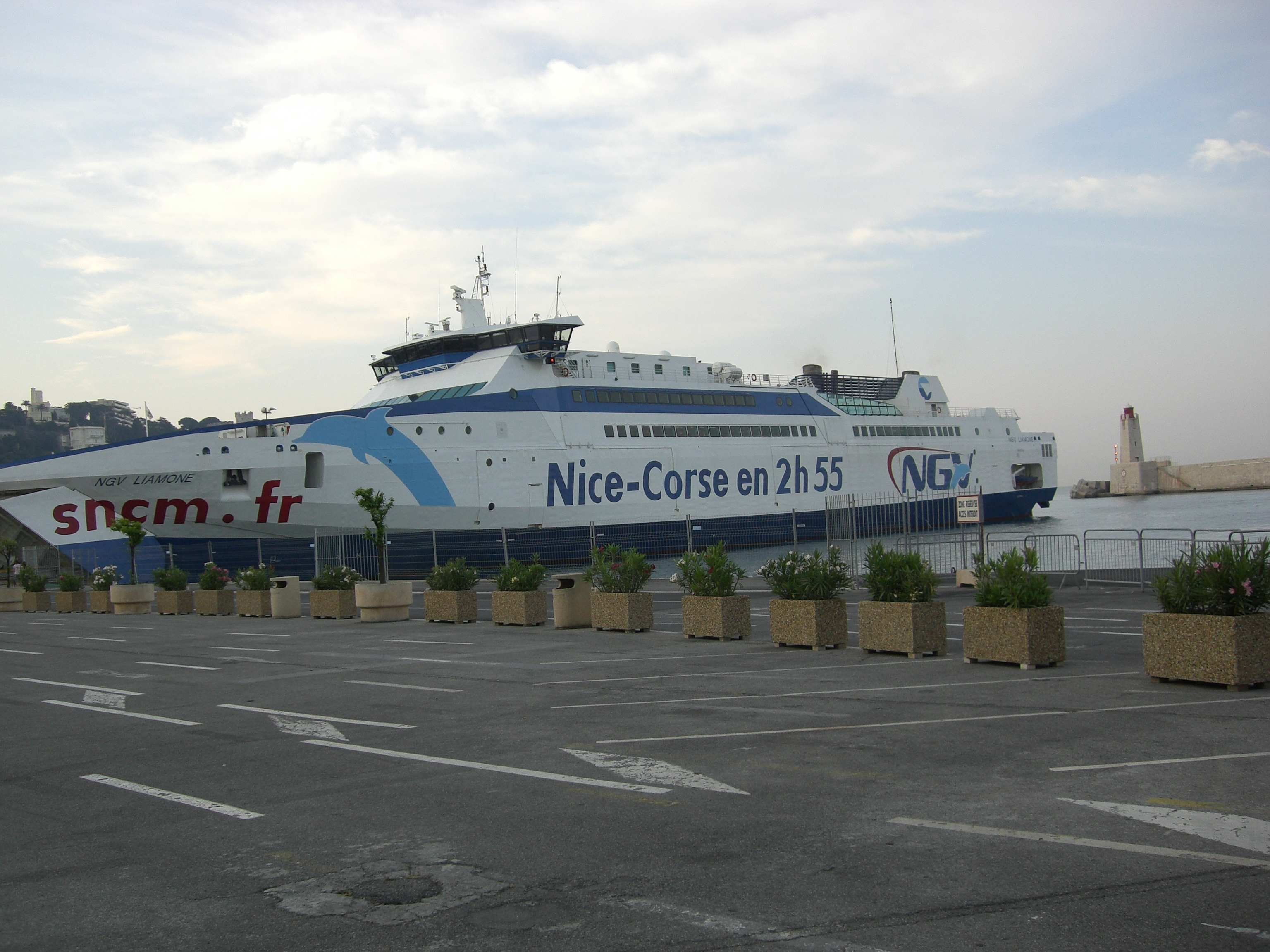 SNCM's NGV Liamone in the port of Nice IMO Number: 9210115 MMSI Number: 226126000 Callsign: FNJC Length: 134 m Beam: 20 m